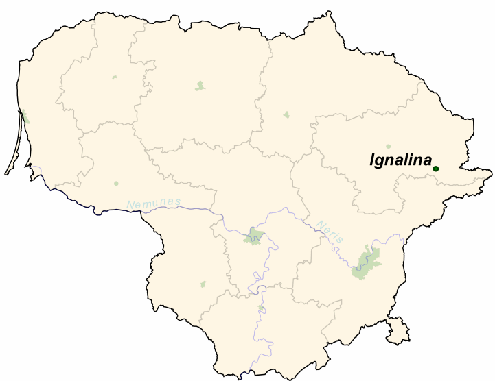 Ignalina on the map of Lithuania